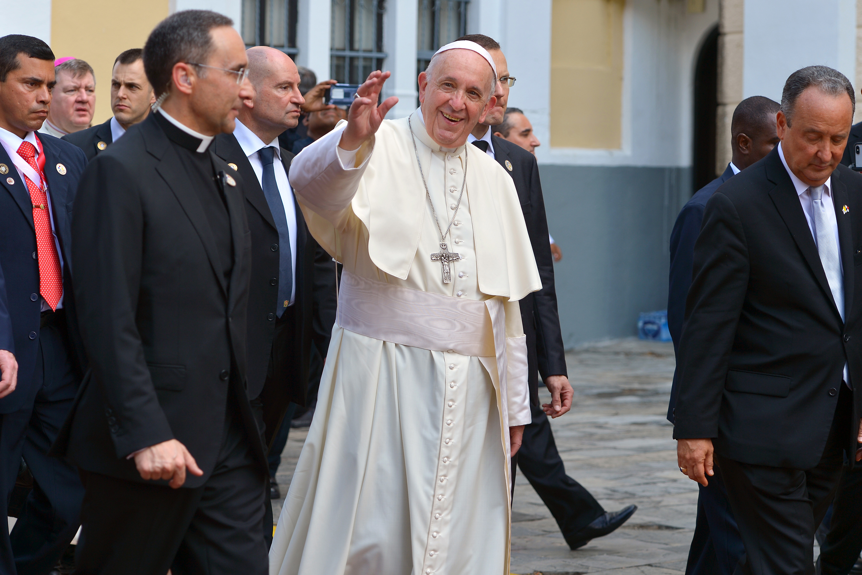 Nuclear Security in Major Public Events: World Youth Day 2019 Panama prepares to welcome Pope Francis and 500,000 Catholic youth for the World Youth Day 2019. The International Atomic Energy Agency’s (IAEA) Division of Nuclear Security assists with integrating nuclear security measures into overall security planning for the major public event. Panama City, Panama. 16-24 January 2019 Thanks to Panama's preparations, conducted with support by the IAEA, nuclear security was ensured at the event. Text: Inna Pletukhina, IAEA Division of Nuclear Security, Outreach Officer Photo Credit: Dean Calma / IAEA